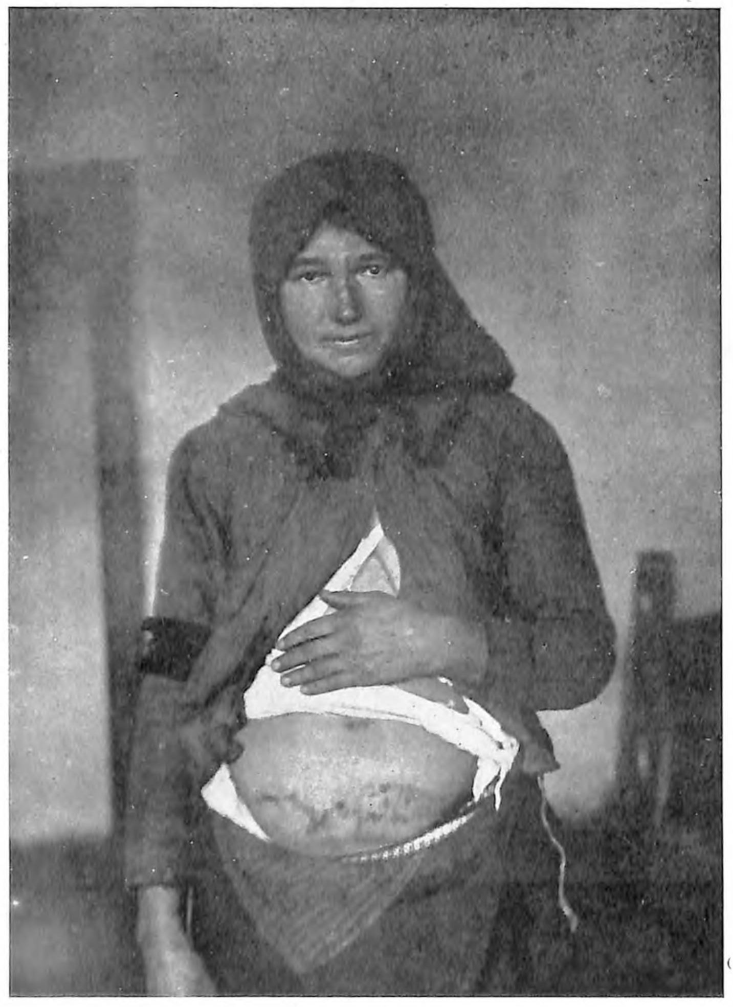 Woman from Toplica showing the scars they received as result of being burnt and beaten by Bulgarian soldiers.